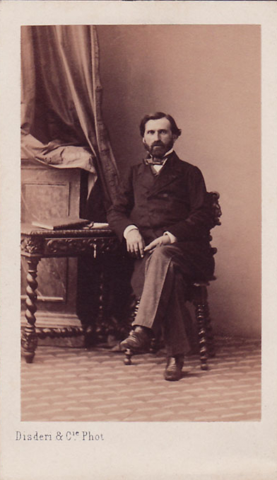 Adolphe Eugène Disderi (1819-1890), Giuseppe Verdi.